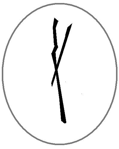 Mucus' fibers in urine